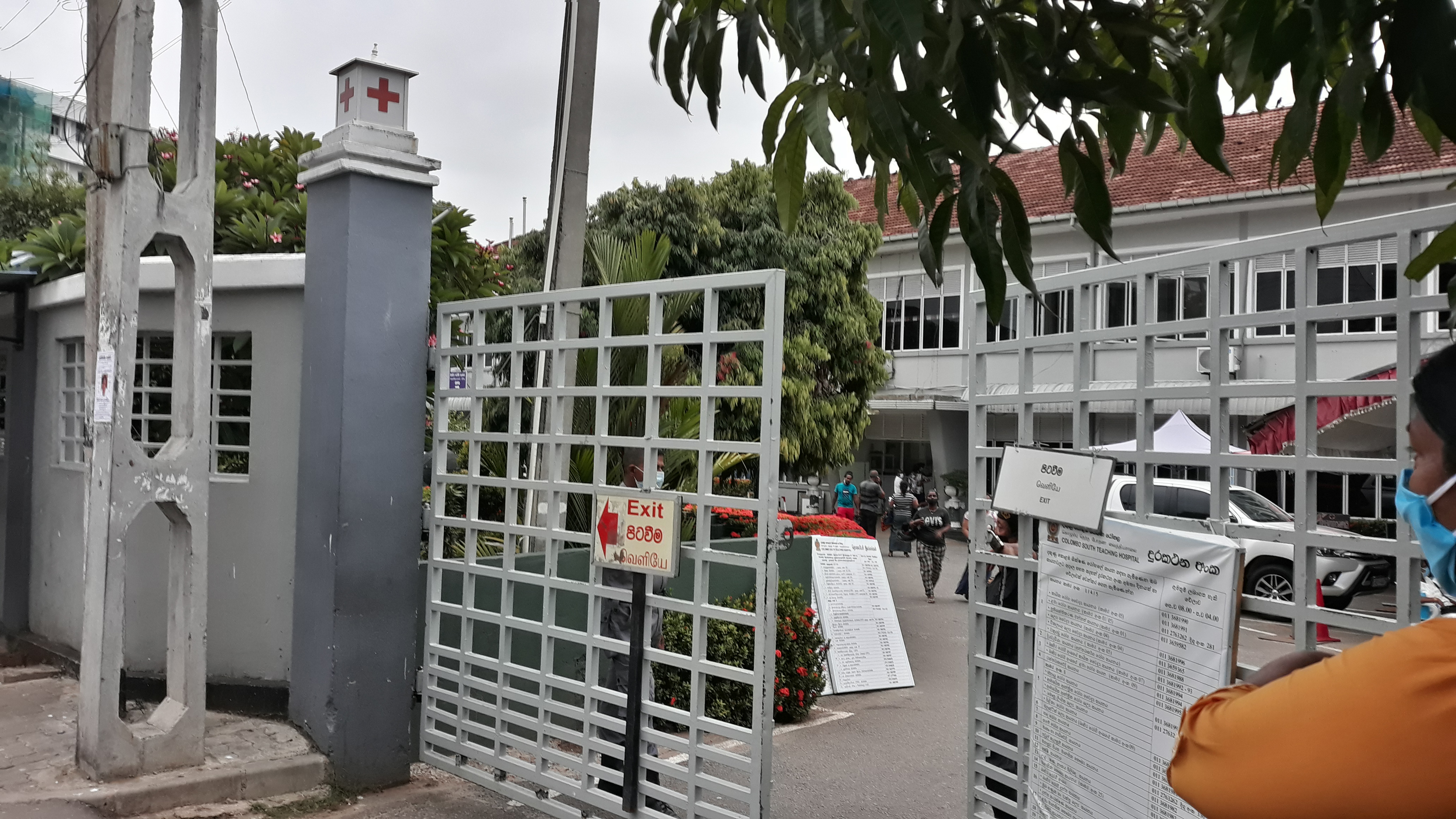 View of the hospital looking Colombo South Teaching Hospital (Kalubowila Hospital) front gate